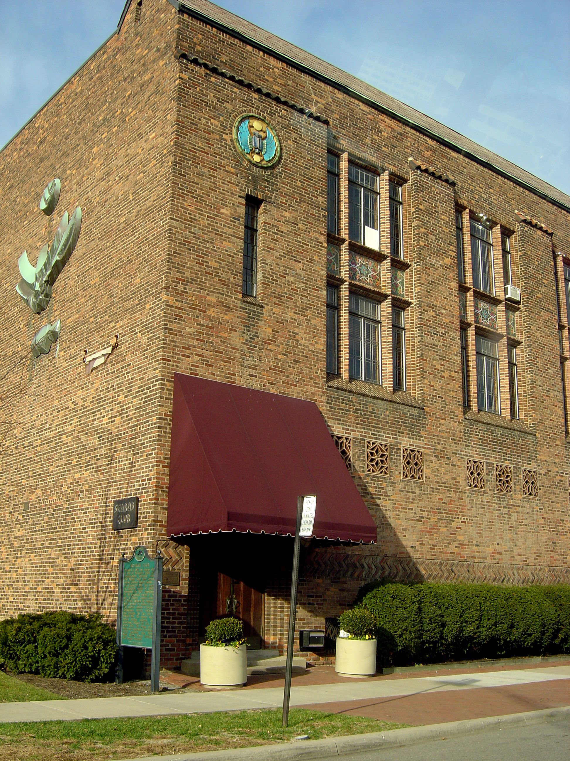 Description: The Scarab Club in Detroit Source: Photo by stanthejeep Date: November 21, 2006 Location: Detroit Author: stanthejeep